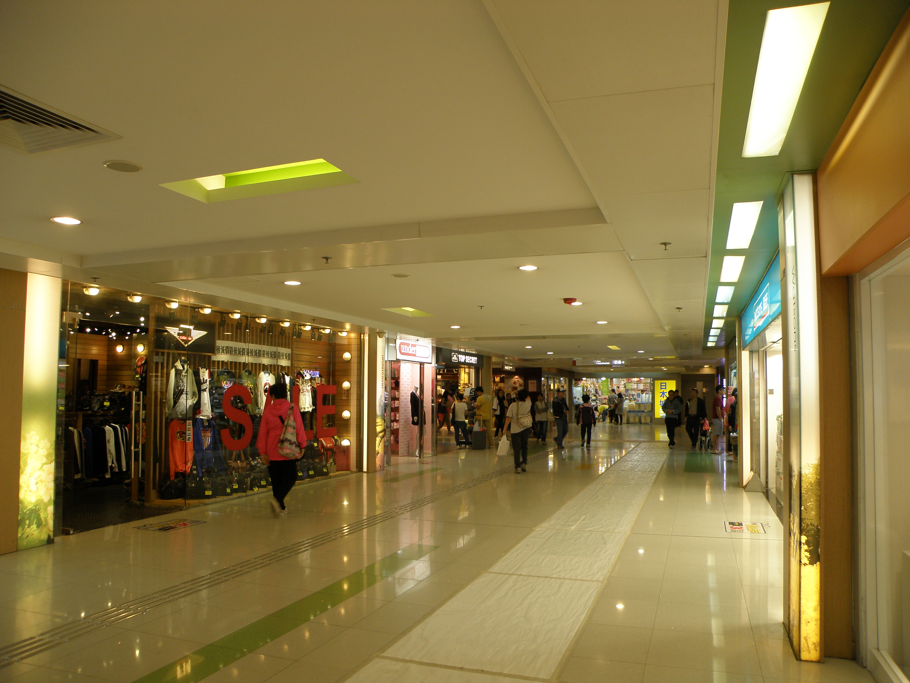 Wo Che Plaza in Shatin, Hong Kong.